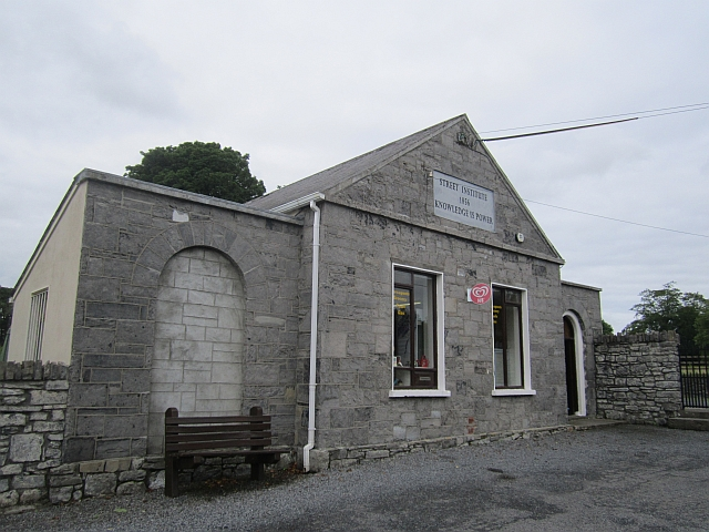 Village shop, Street